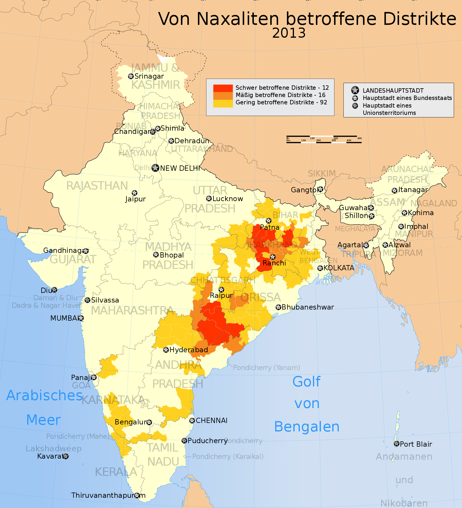 Map shows districts in India affected by Naxalites (left wing terrorism). Naxalites are considered far-left radical communists, supportive of Maoist ideology.w This is a derivative work on File:India Naxal affected districts map.svg (2007), available on wikimedia commons. The data and coloring has been updated in the above map to reflect 2013 information, as accessed in June 2014.